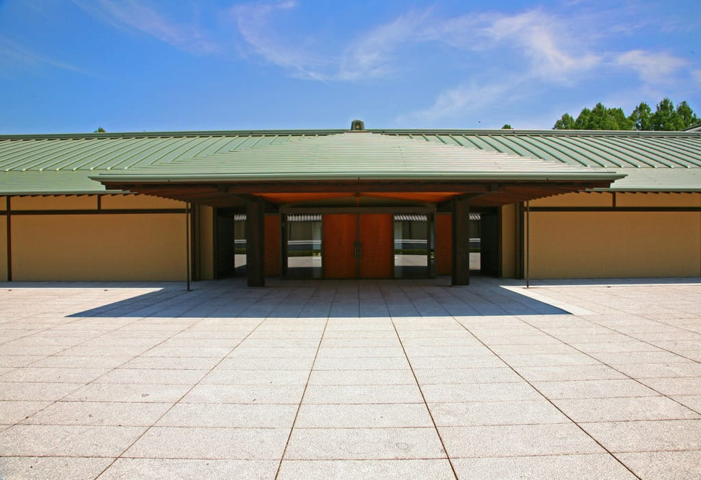 Main Entrance of Kyoto State Guest House